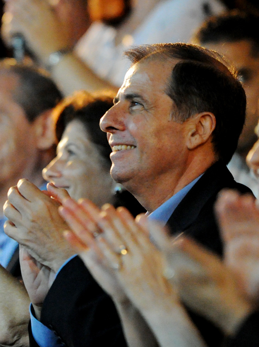 Prime Minister Lawrence Gonzi and wife Kate, and President George Abela and wife Margaret Abela